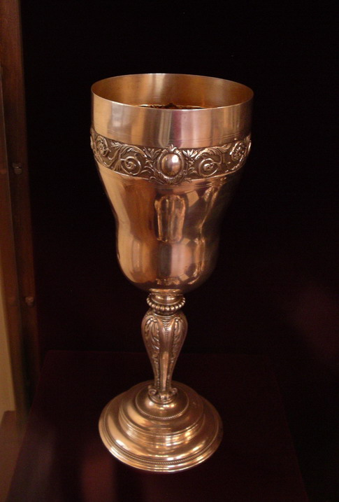 Photo of silver cup made in Lviv at the end of XIX, beginning of XX century by A.H.Zipper company. Silver. Stored in Lviv History Museum.